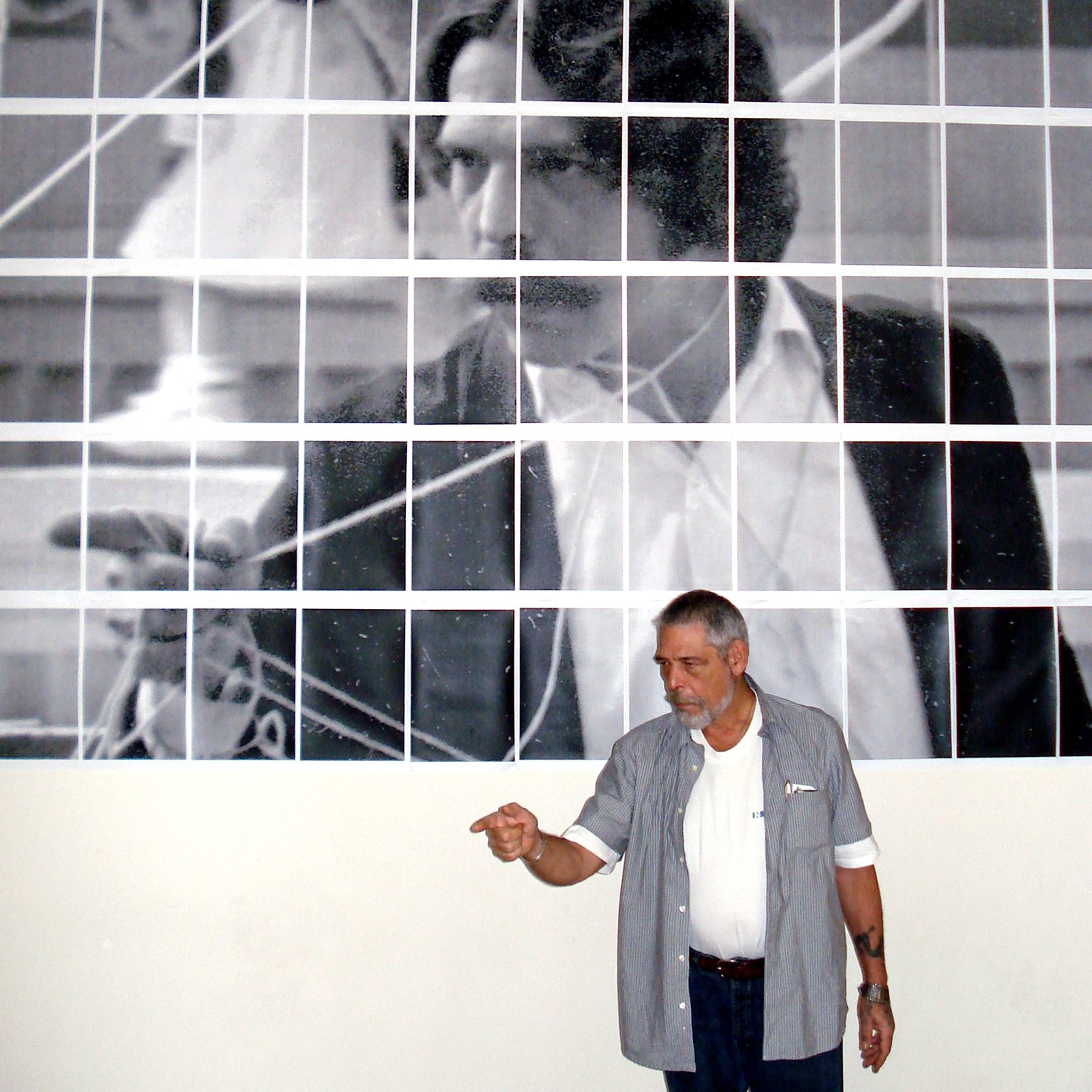 Mexican artist Felipe Ehrenberg in his exhibition "Manchuria". Taken at Ex-Colegio Civil Centro Cultural Universitario de Monterrey in 2007 during the assembly of his exhibition MANCHURIA. Photo donated by Mexican artist Fernando Llanos.